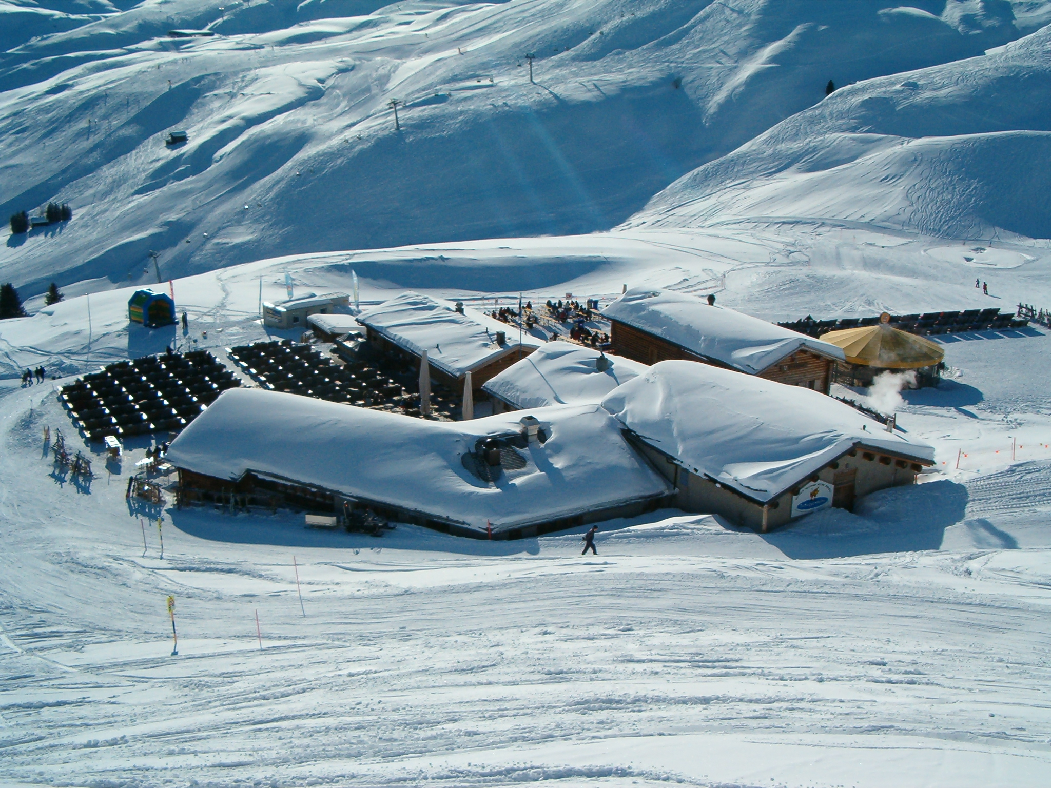 Tschuggen Mountain Hut in Arosa, Switzerland